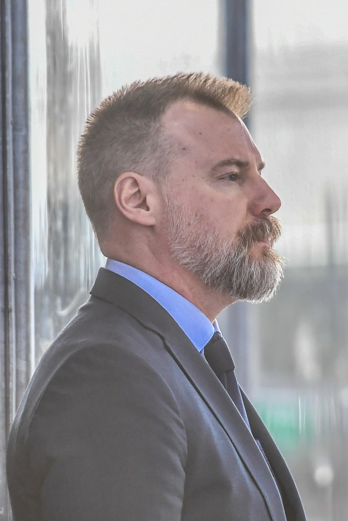 6/4/2017, Vienna, Austria, Sport, Ice Hockey, Friendly match Austria vs Sweden.